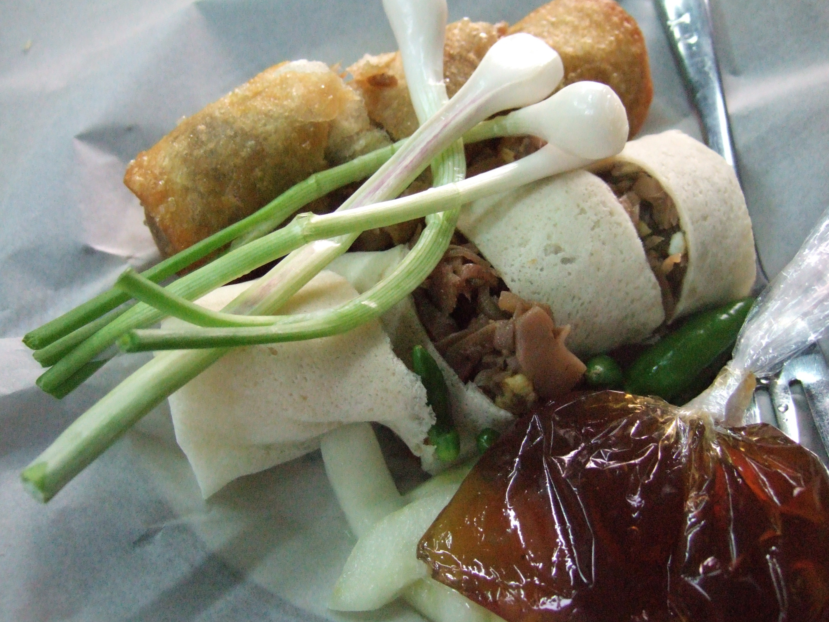 Semarang Lumpia with sauce